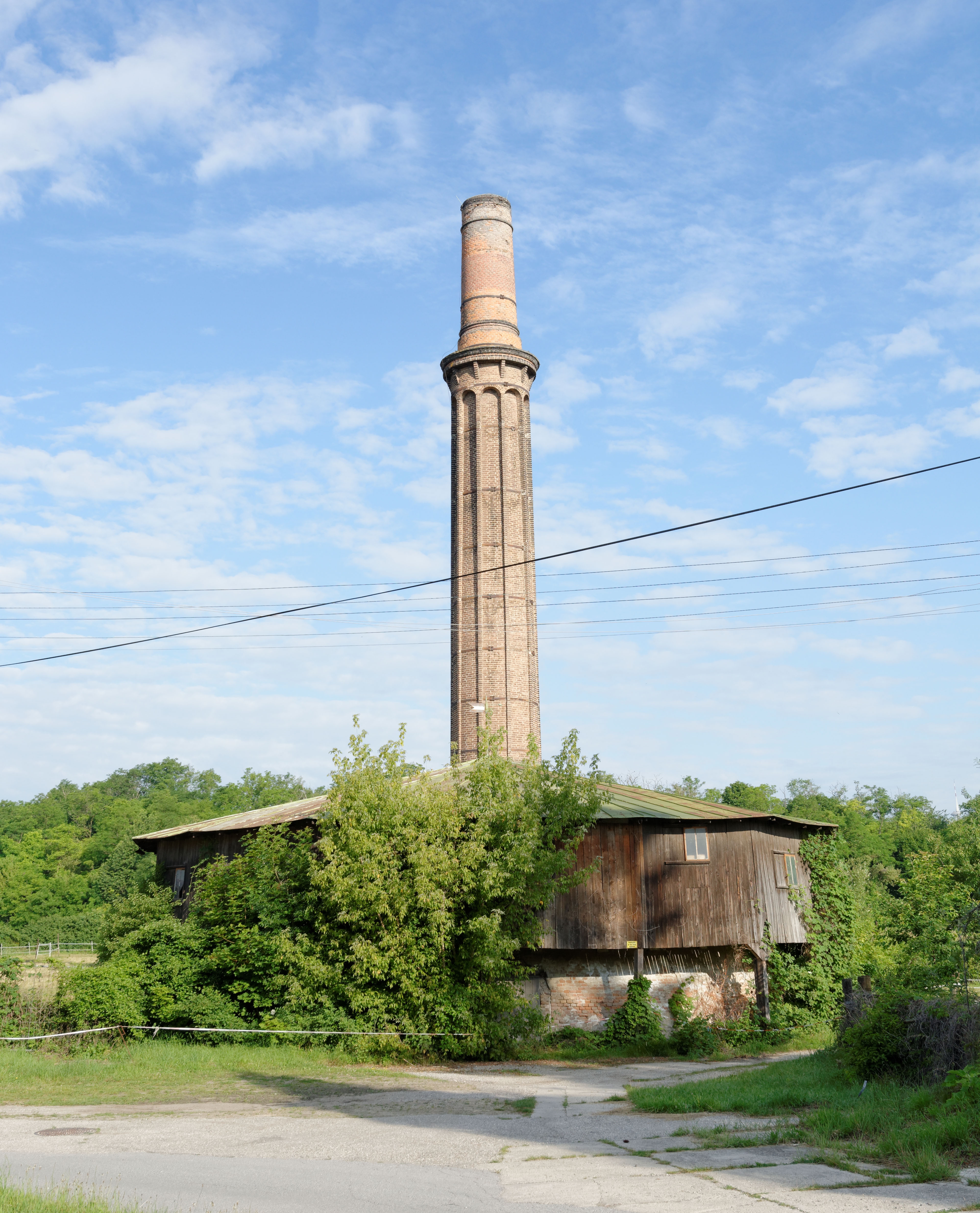 Former brik-kiln in Neubau-Kreuzstetten, Municipality Kreuzstetten, Lower Austria, Austria